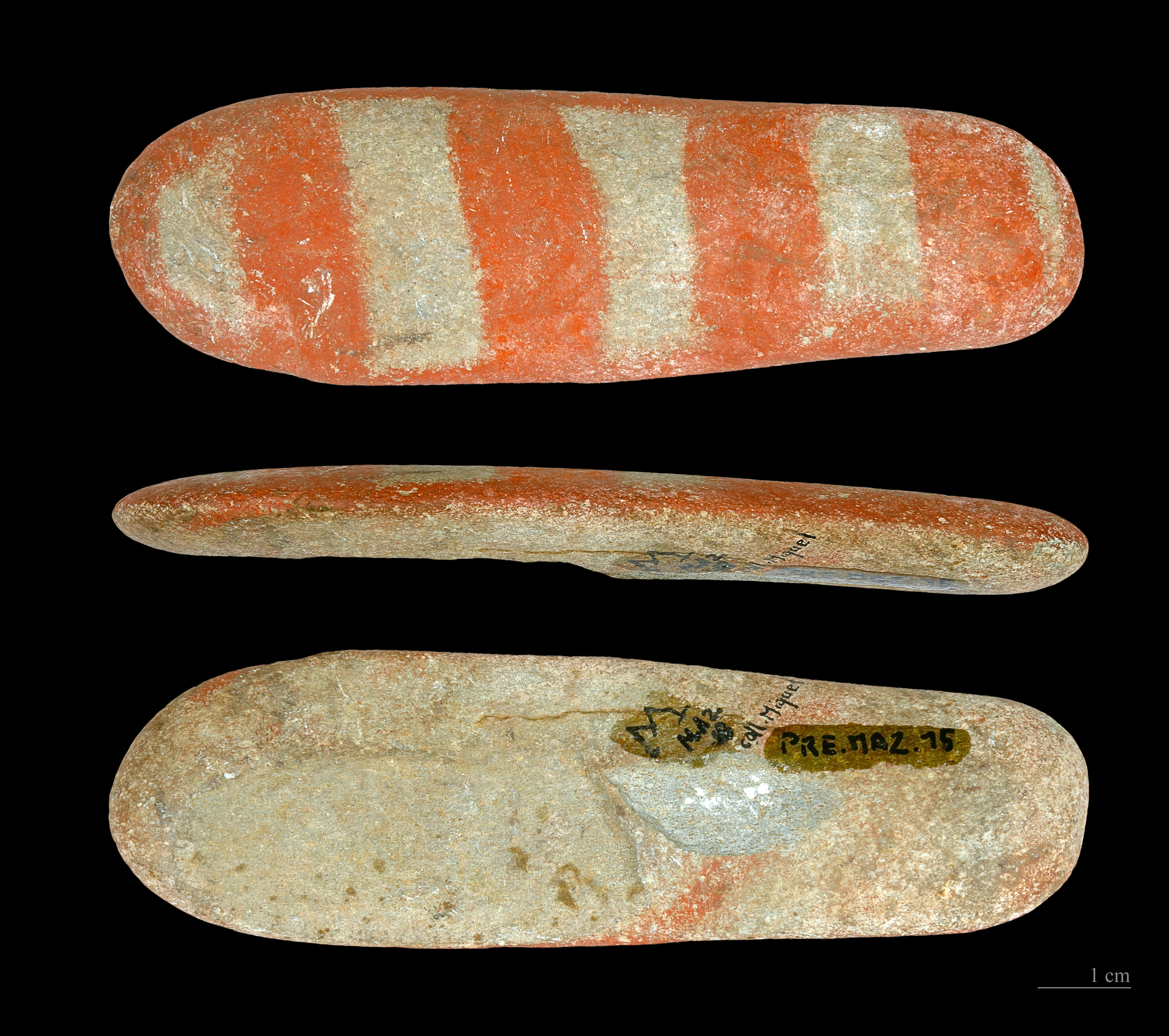 Painted pebble Stage : Azilian (from -12 000 Ma to – 9 500 ans befort present) Locality: Le Mas-d'Azil, Ariège department, France Former collection of French naturalist JEAN MIQUEL (1859-1940) Different views of the same specimen.